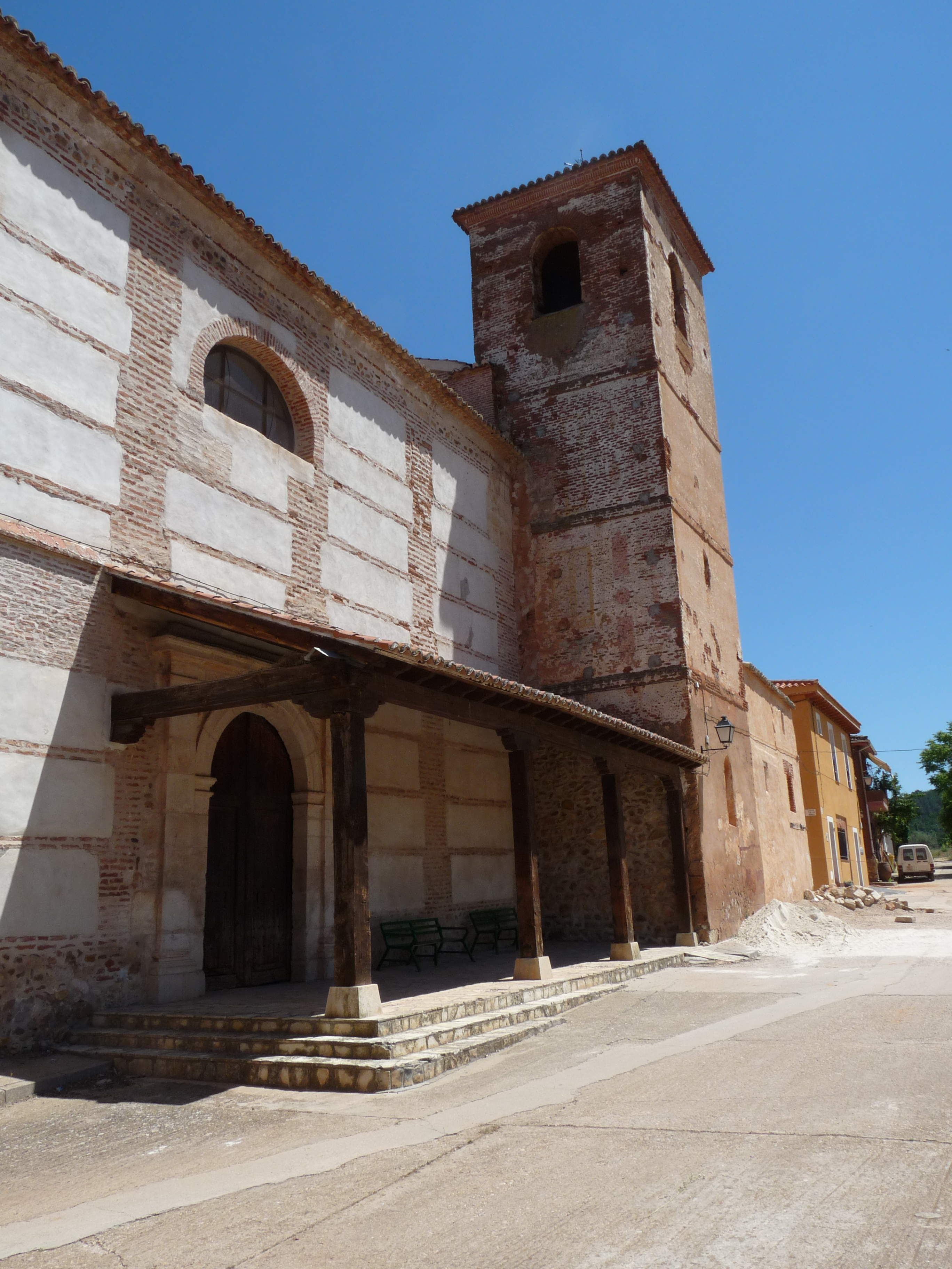 Church in Puebla de Valles, Guadalajara, Castile-La Mancha, Spain.